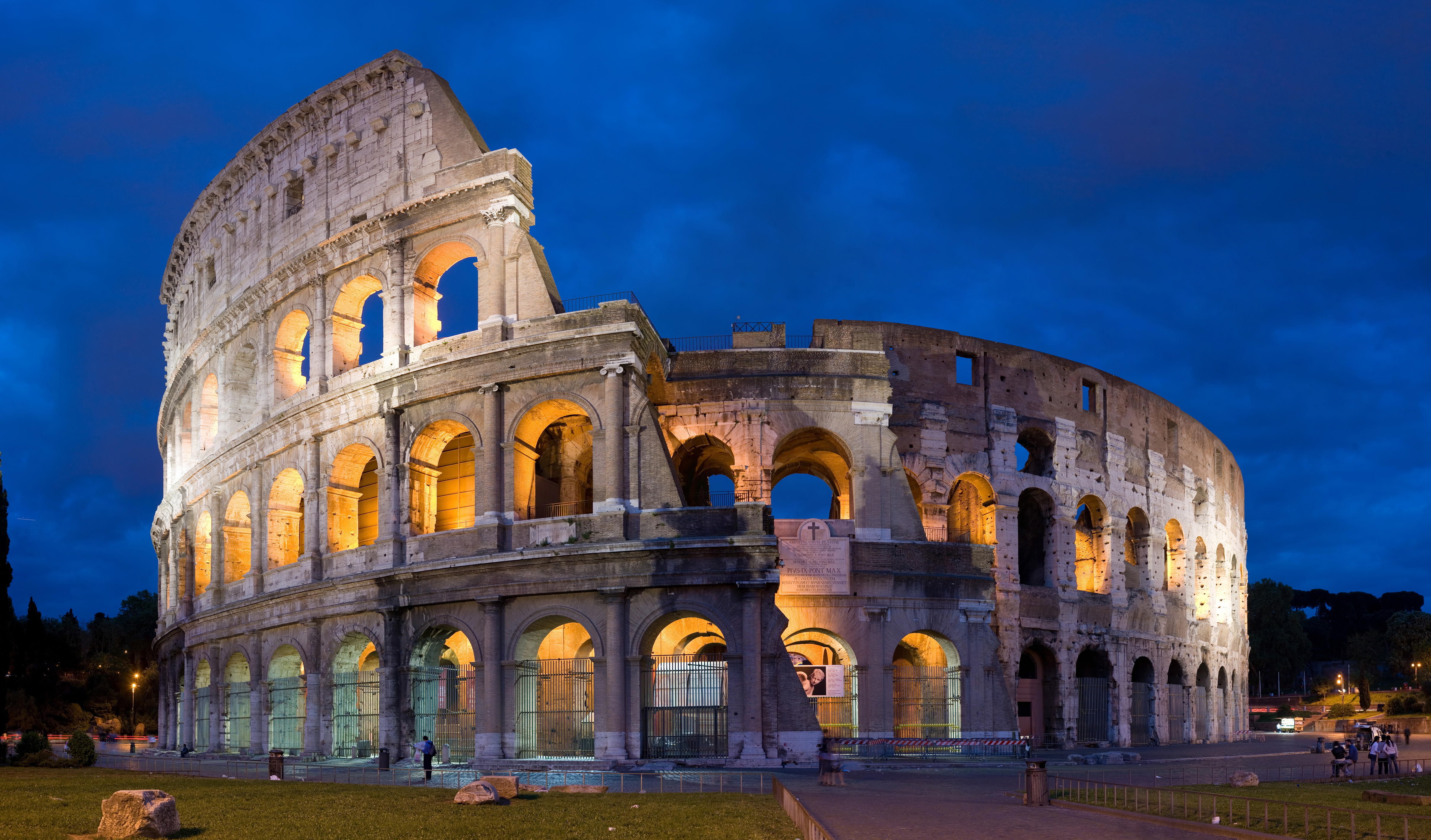 A 4x4 segment panorama of the Coliseum at dusk. Taken by myself with a Canon 5D and 50mm f/1.8 lens at f/5.6.